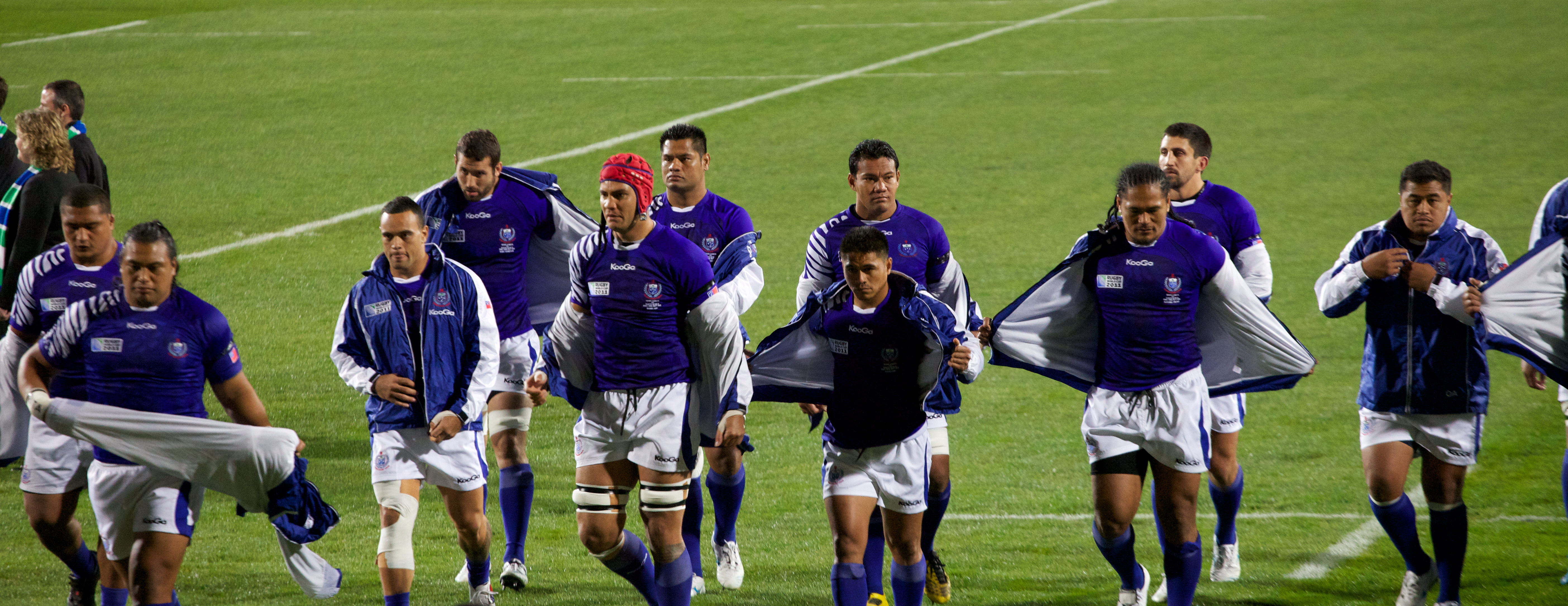 Match between South Africa vs Samoa during 2011 Rugby World Cup in New Zealand.